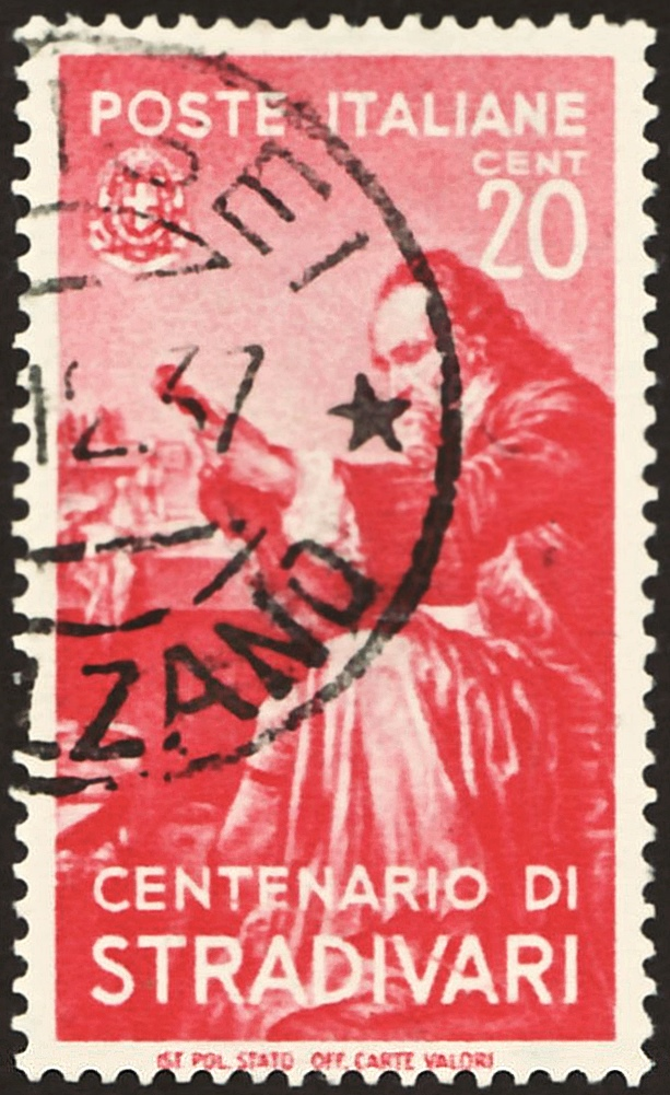 Stamp of the Kingdom of Italy; 1937; commemorative stamp of the issue "Famous Italian people"; framed portrait of Antonio Stradivari, postmarked in Ortisei (?) (German: Sankt Ulrich), Province of Bolzano (German: Bozen), Region Trentino-South Tyrol),1937 Stamp: Michel: No. 592; Yvert & Tellier: No. 407; Scott: No. 388 Color: red Watermark: Italy No. 1 (crown) Nominal value: 20 Cent. (Centesimi) Postage validity: from 25 October 1937 until 30 September 1938 Stamp picture size (printed area without below names line): 20.5 x 37,0 mm Postmark: Ortisei (?) (German: Sankt Ulrich), Province of Bolzano (German: Bozen), Region Trentino-South Tyrol), December 1937